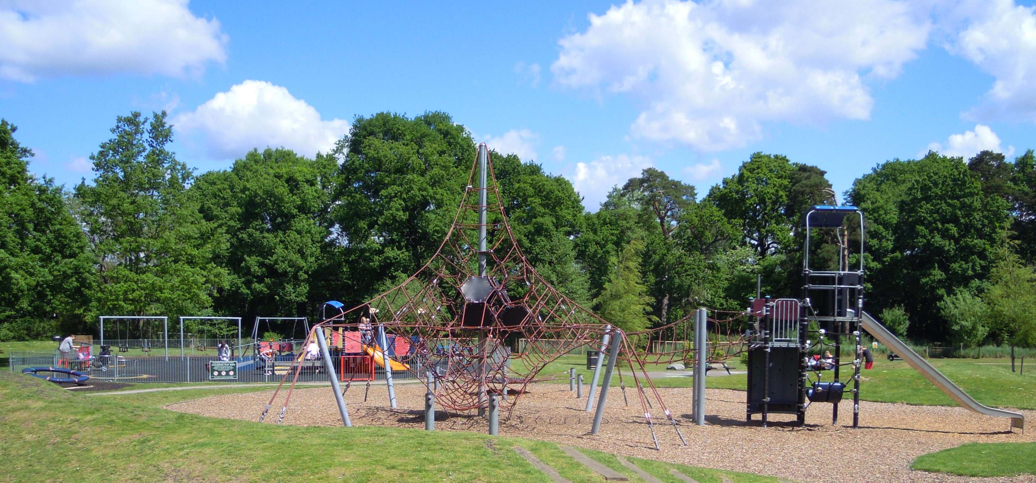 The playarea at Aldershot Park in Aldershot in Hampshire